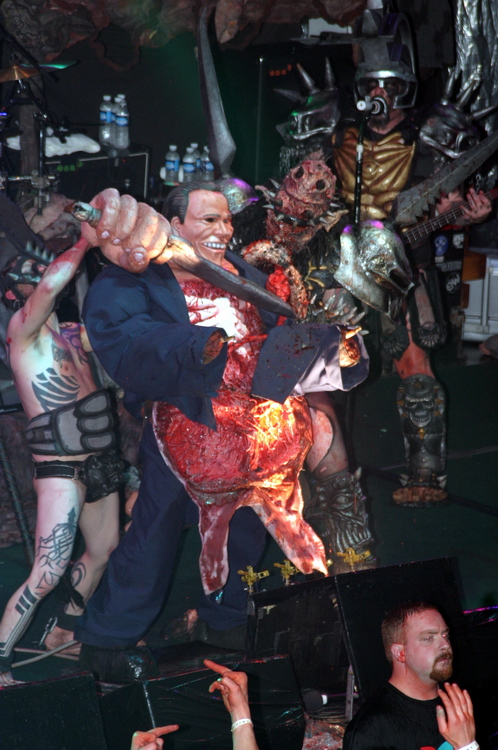 GWAR Concert - George Bush Abuse